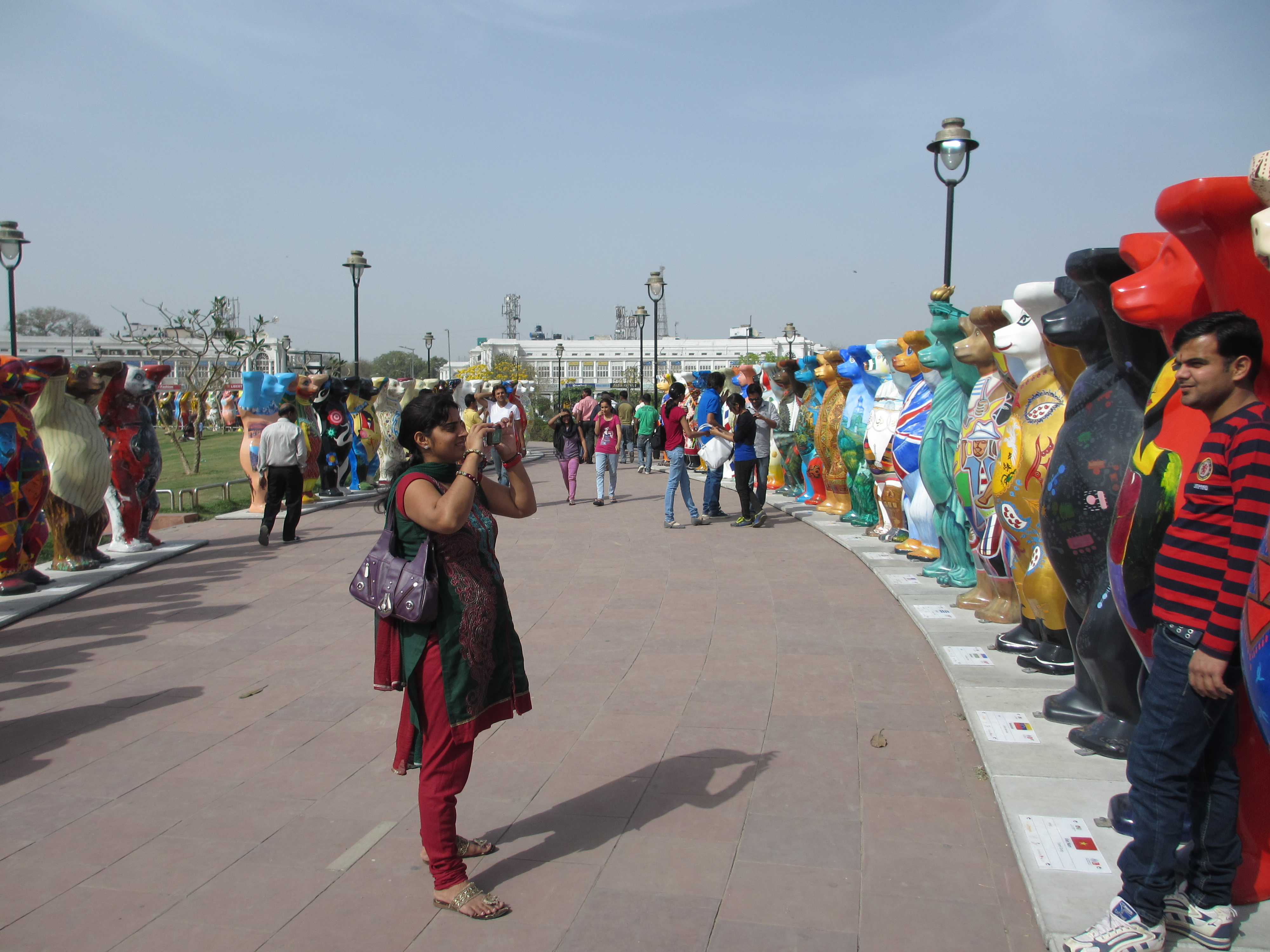 United Buddy Bears - New Delhi 2012